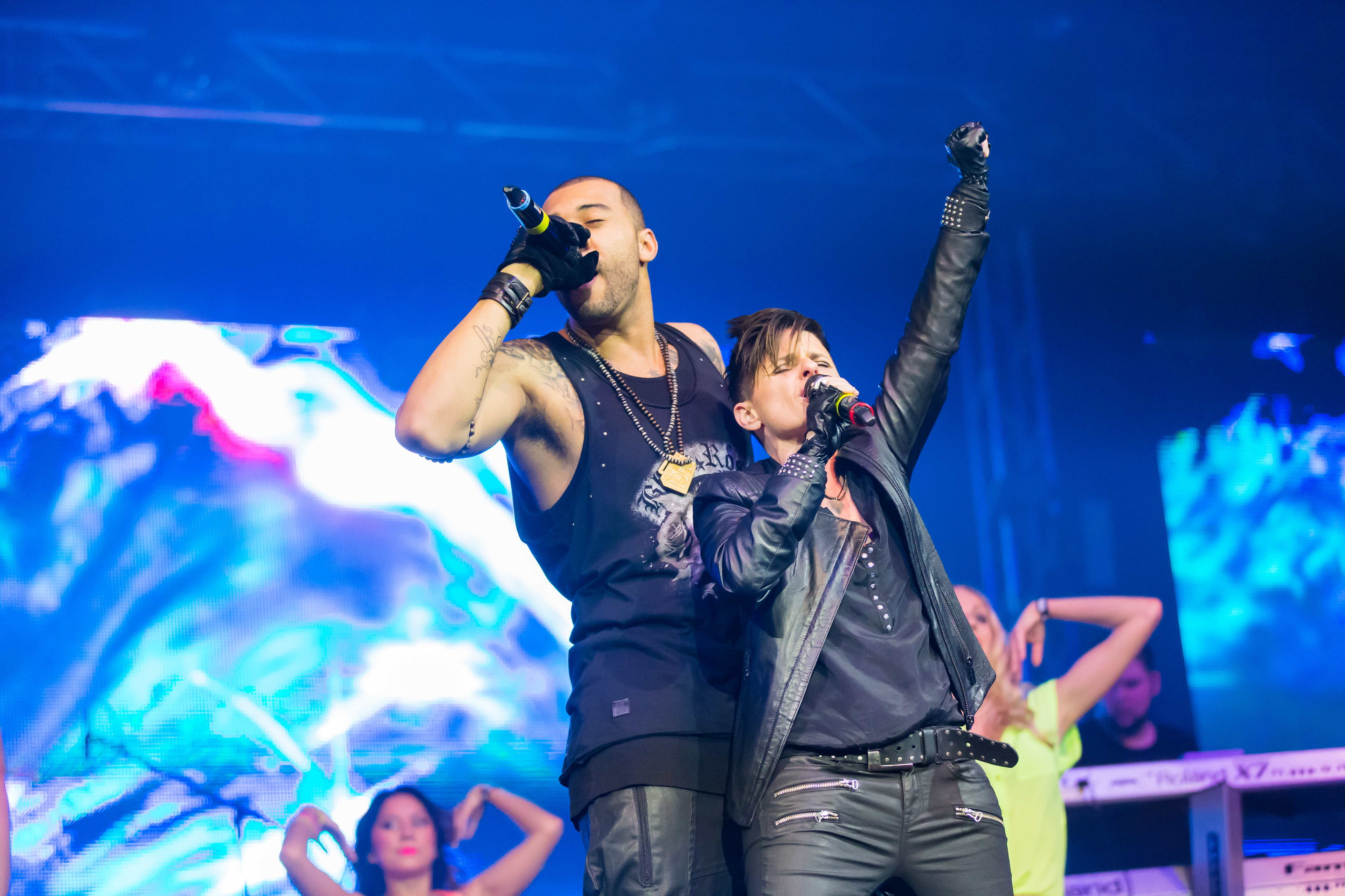 sunshine live "Die 90er - Live On Stage" Maimarkthalle Mannheim DJ Falk, Magic Affair, Captain Hollywood Project, Haddaway, Masterboy, 2 Unlimited, Marusha, Charly Lownoise